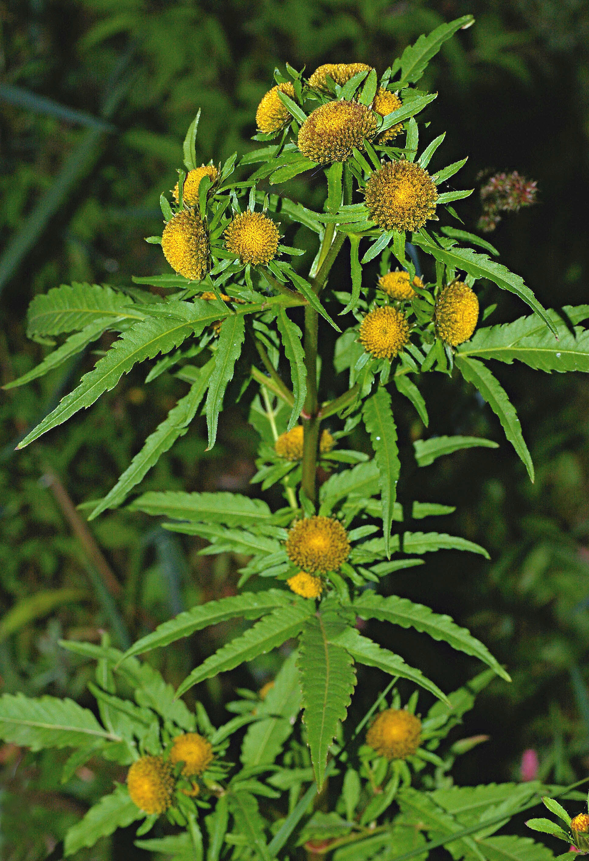 Habitus of flowering Bidens radiata (Asteraceae).